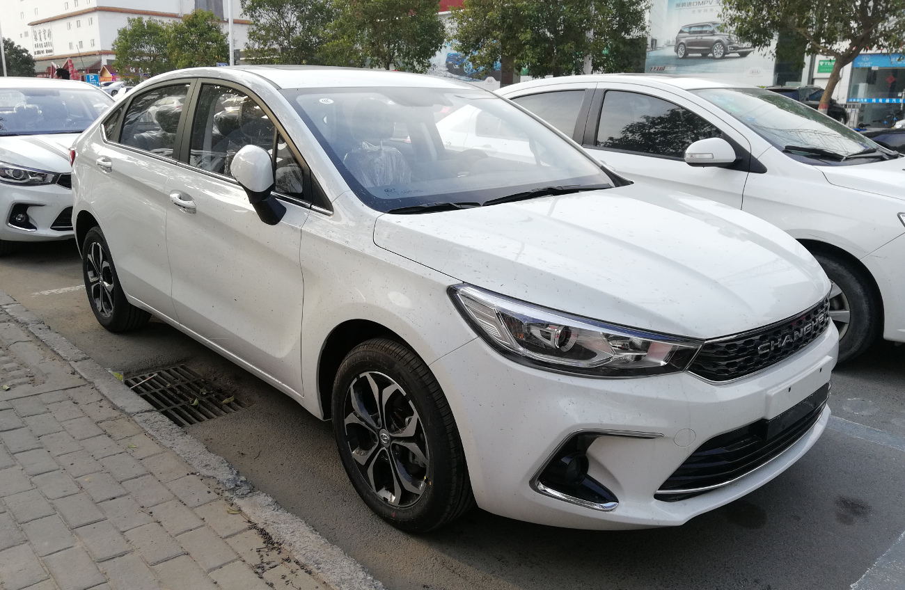 Changhe A6 photographed in Zhengzhou, Henan province, China.